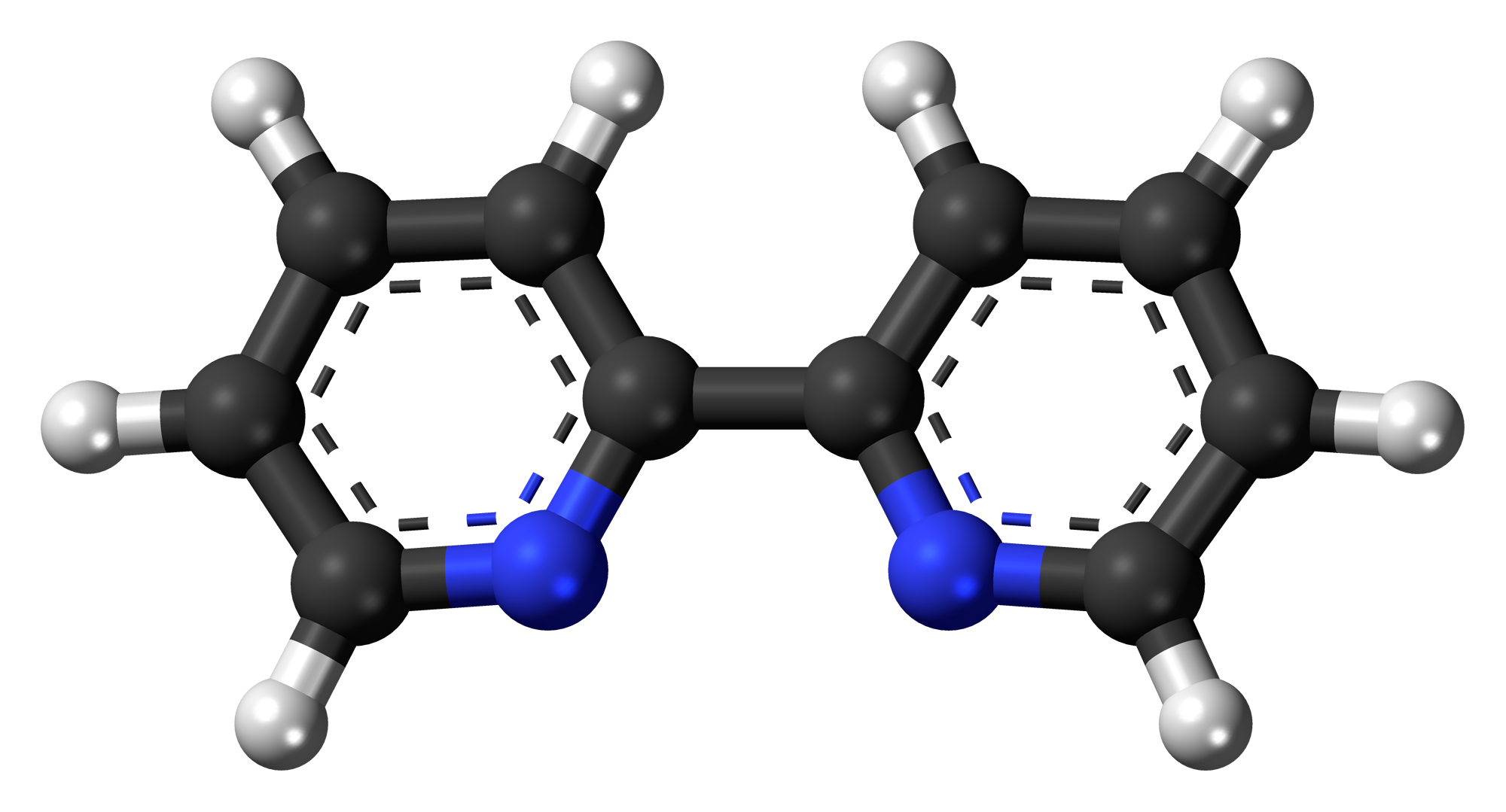 Ball-and-stick model of the 2,2'-bipyridine molecule, a bidentate ligand. This image shows the cisoid conformation. Color code: Carbon, C: black Hydrogen, H: white Nitrogen, N: blue